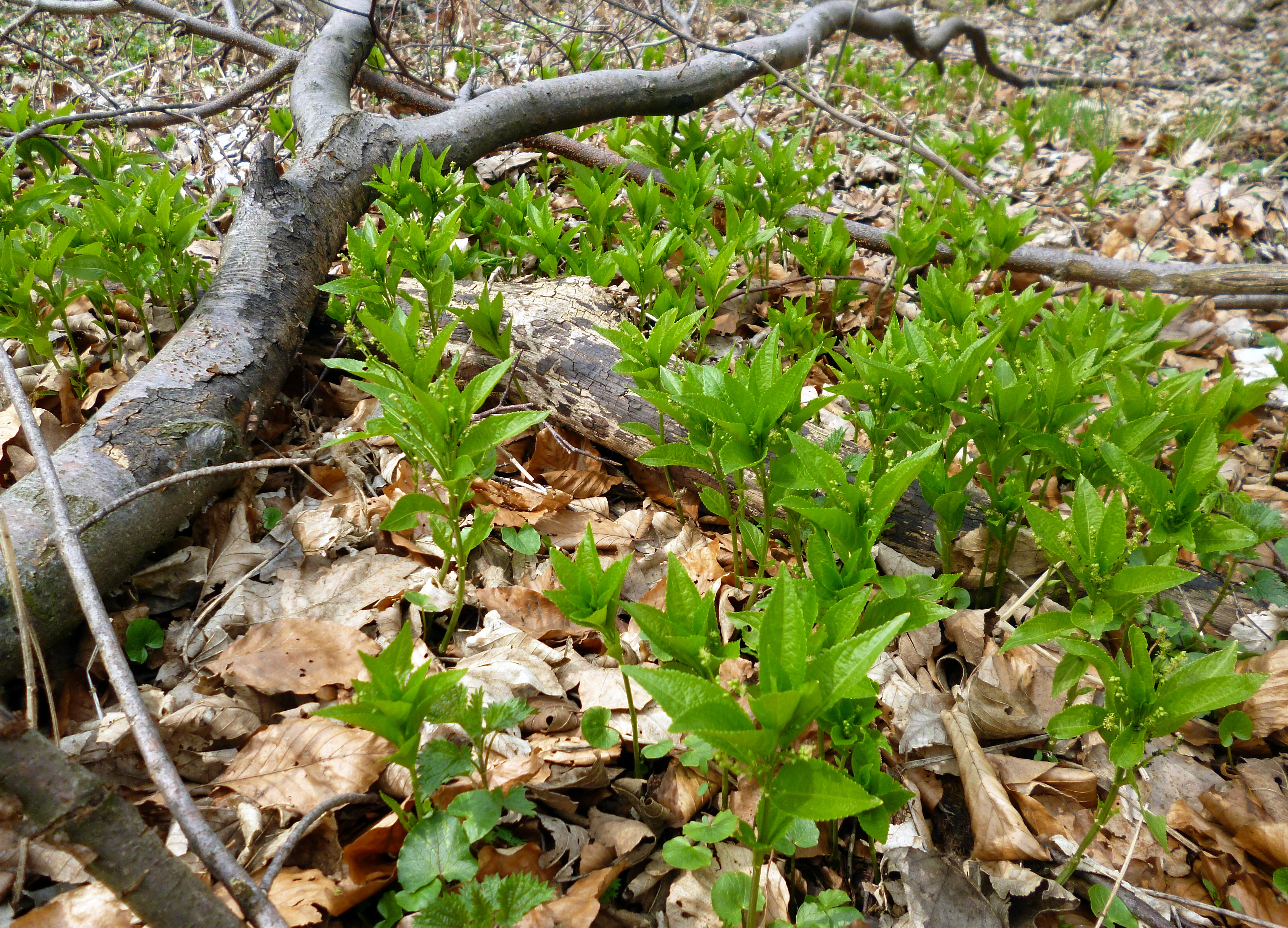 Habitat of Mercurialis perennis